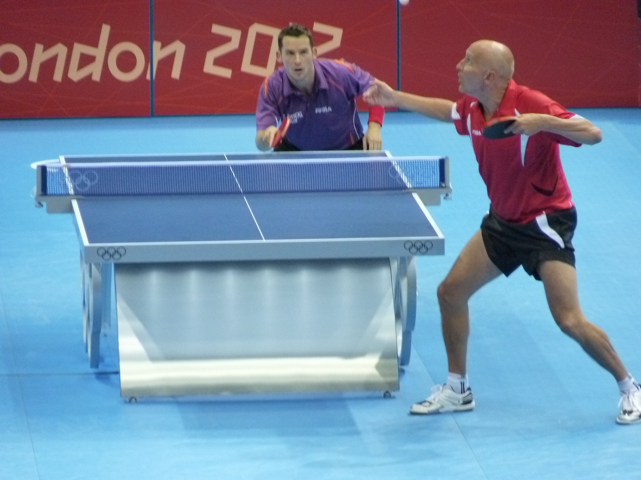 Allan Bentsen (Denmark) v Daniel Zwickl (Hungary), 1st round of men's table tennis, ExCel arena, London Olympics, 28 July 2012